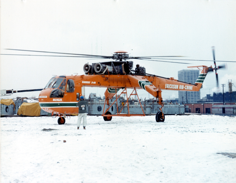 Sikorsky Skycrane civil S-64